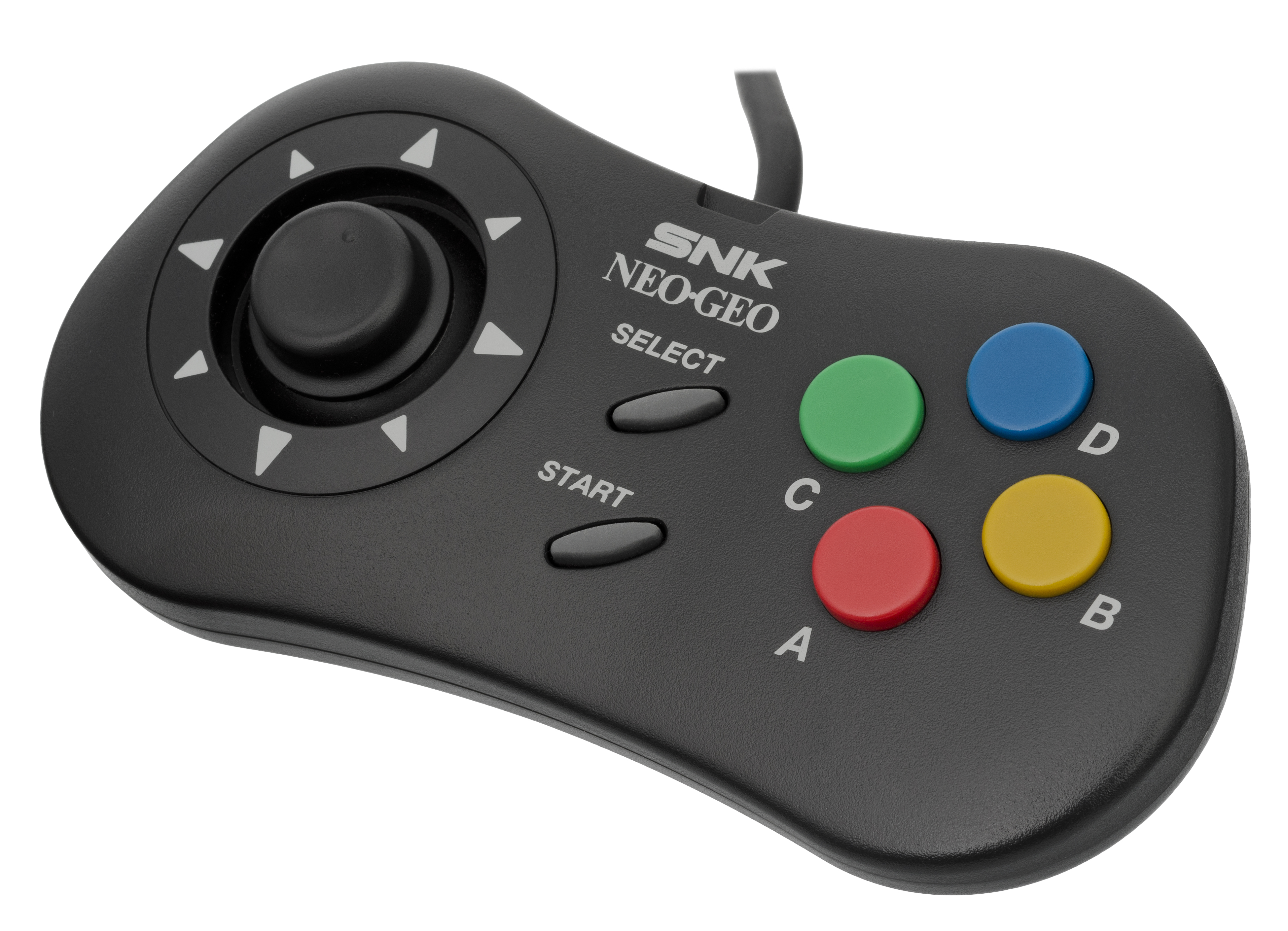 The controller for the Neo Geo CD, a video game console released by SNK in Japan in 1994. This controller came packed in with all three models of the Neo Geo CD and replaced the large arcade-stick controller of the Neo Geo AES system, though both use the same connector. The controller can be used on both the Neo Geo CD and Neo Geo AES.